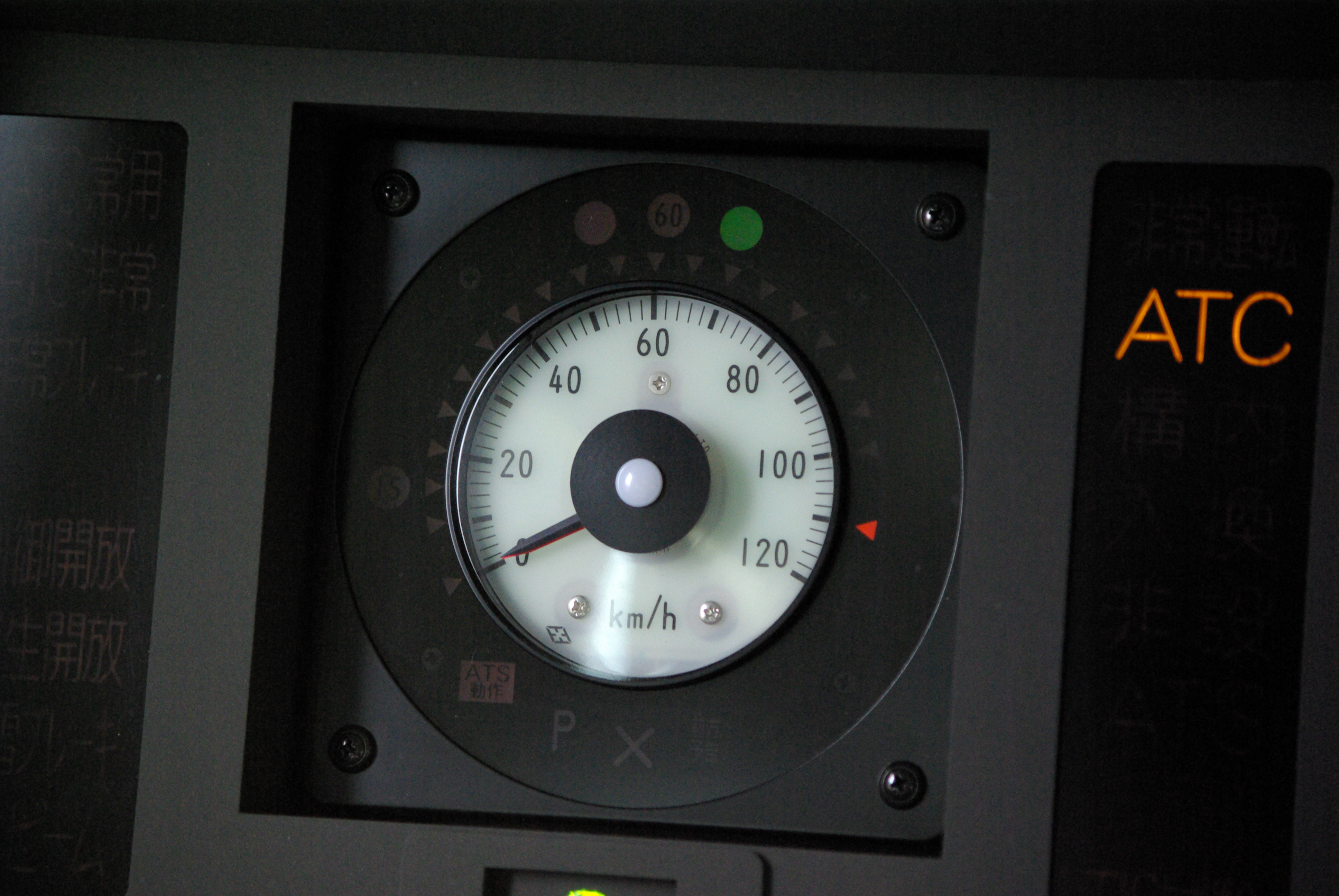 Speed meter in 5010, Tōkyū 5000 series (II) (Taken at Tokyu Den-en-toshi line Minami-machida Station)